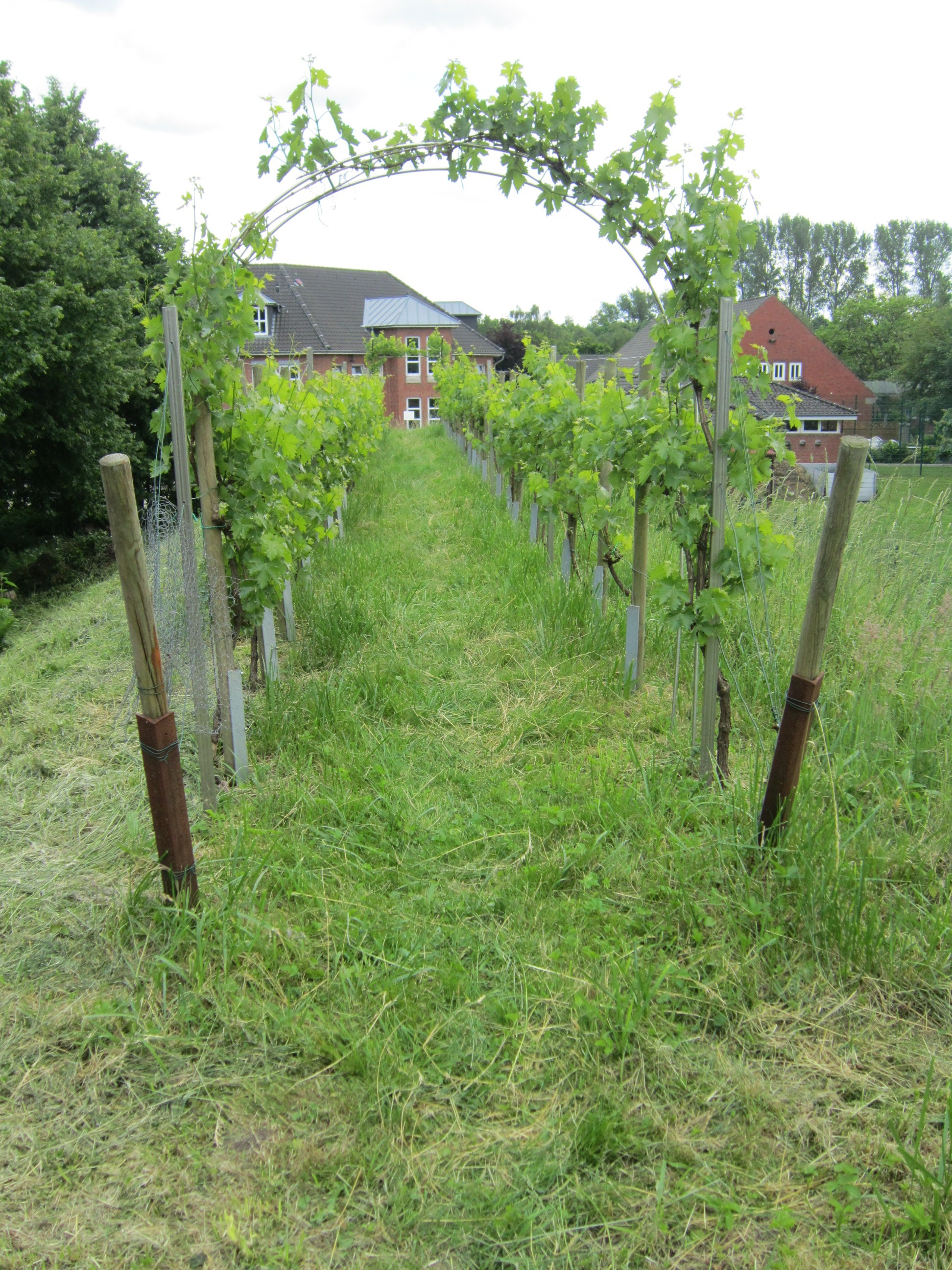 Wineyard near "Museum im Zeughaus" Vechta. Gift from Vechta's hungarian partner town of Jászberény